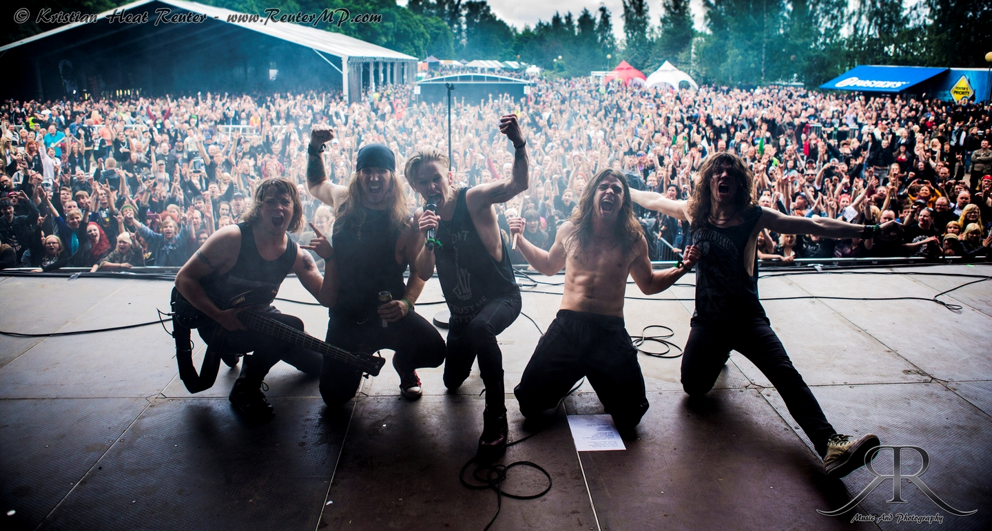 H.E.A.T Live At South Park Festival, Tampere, Finland, June 7, 2014